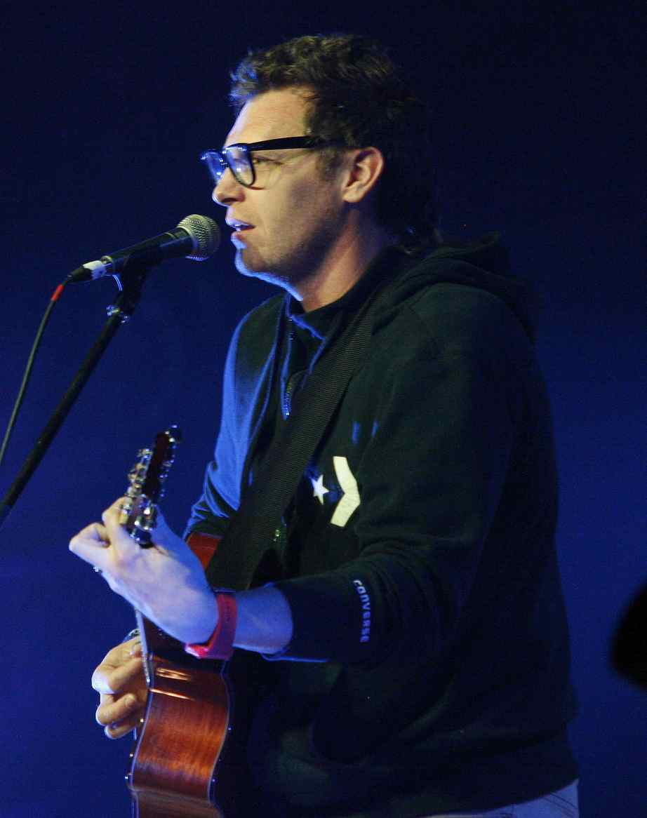 riley armstrong music comic